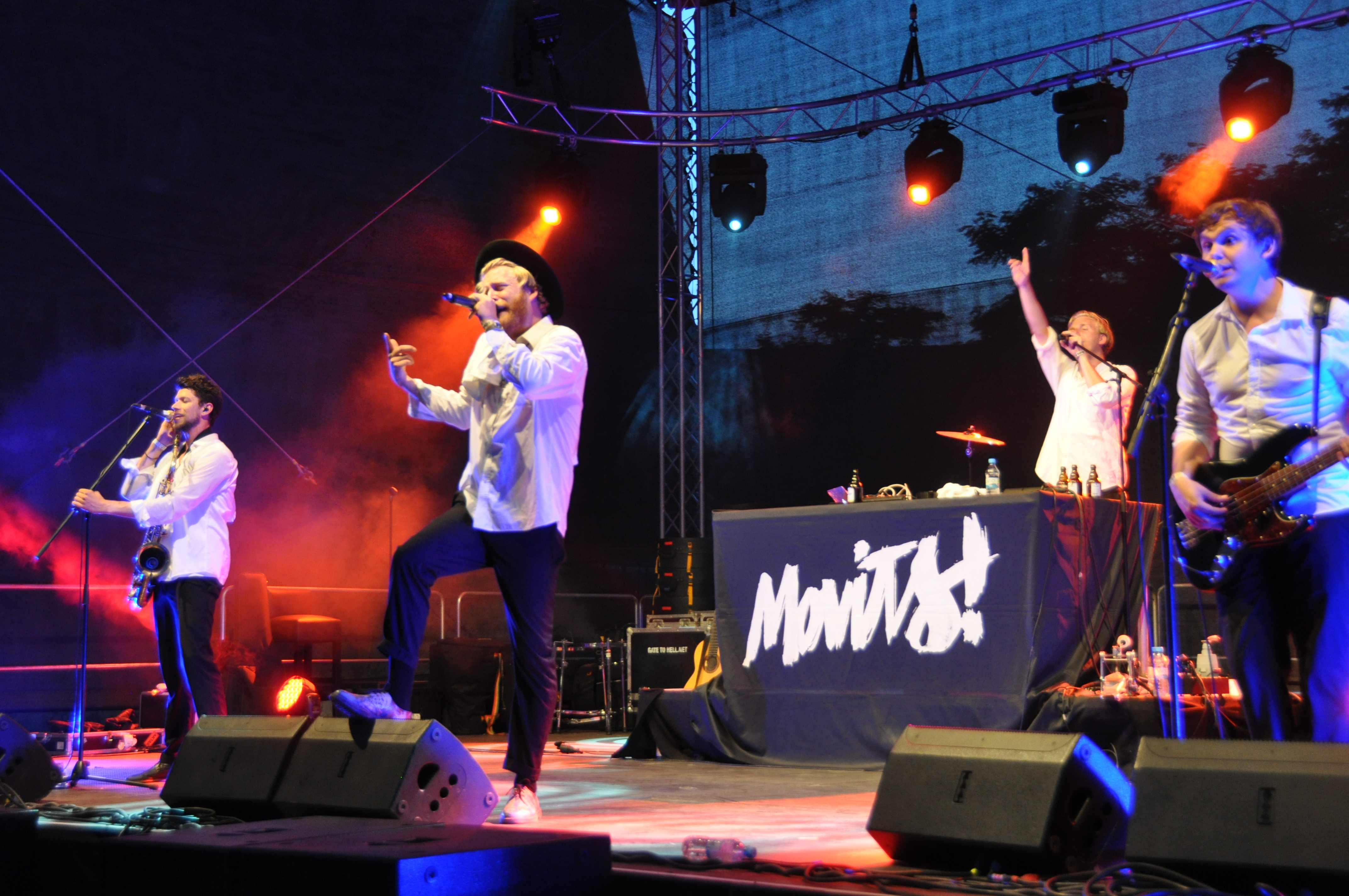 Movits! (SE), appearance at the 12th World Music Festival "Horizonte" 2014 at the fortress of Ehrenbreitstein, Koblenz (Germany)